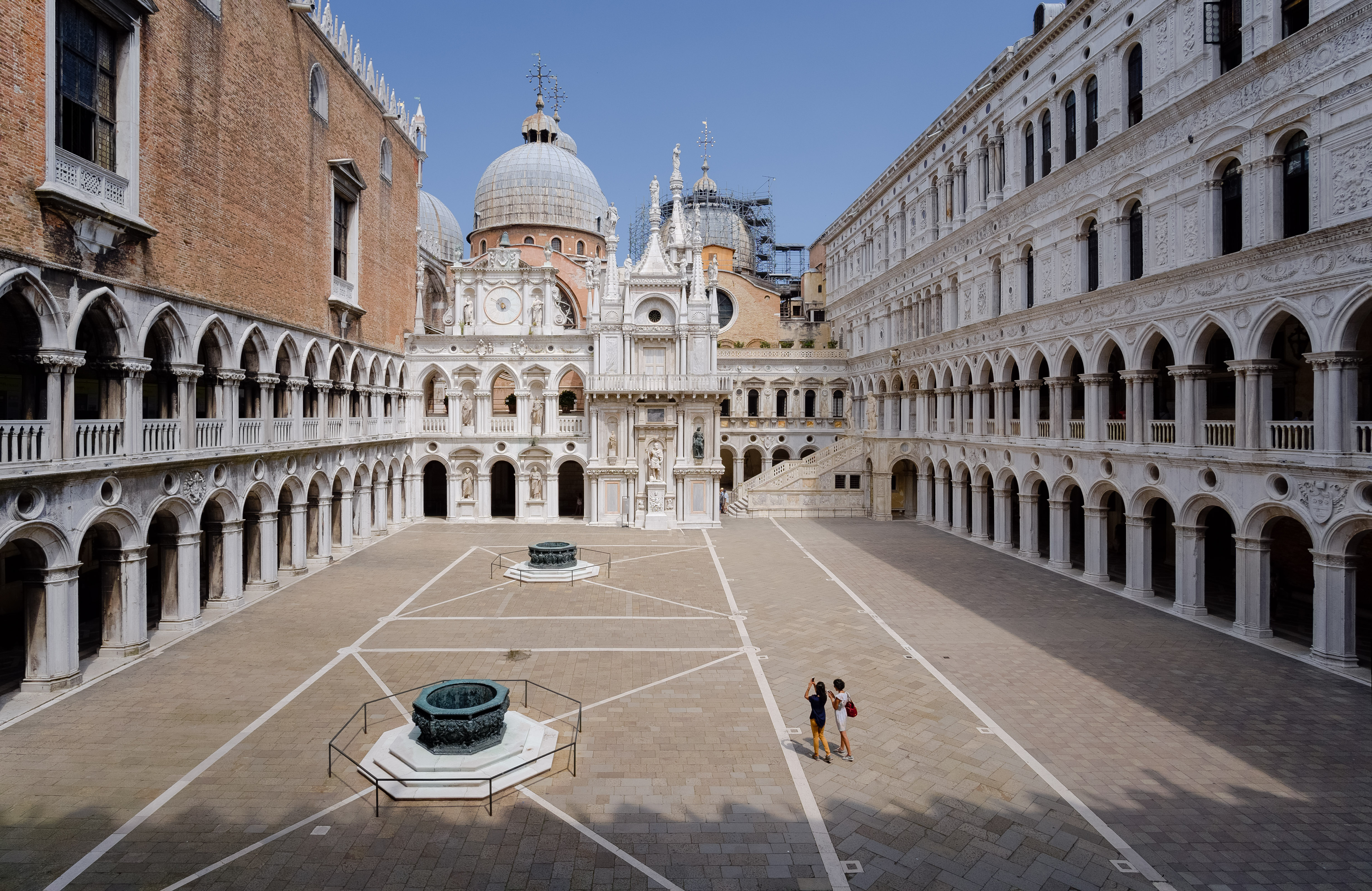 Two tourist taking photos in the Doge's Palace's courtyard